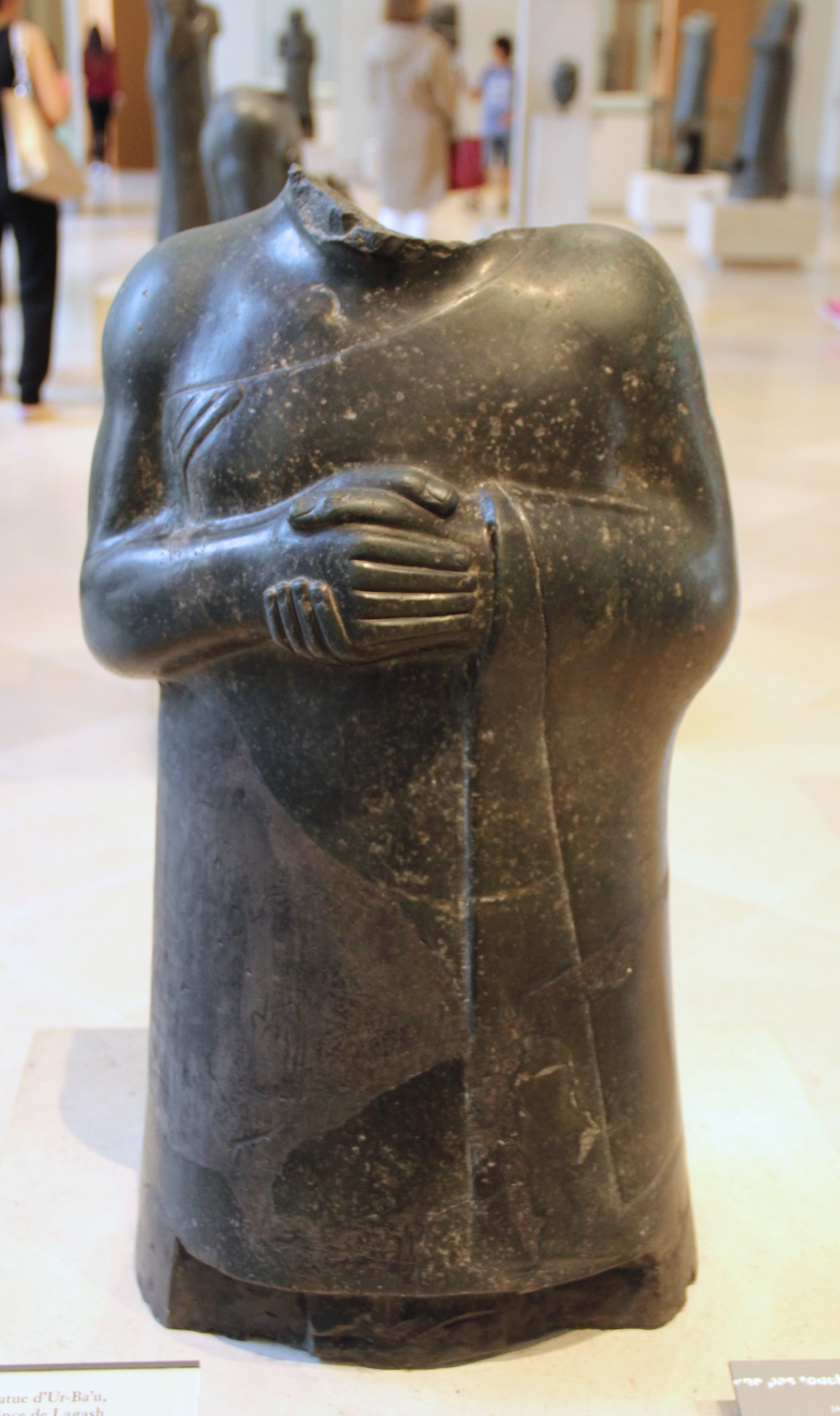 Diorite Statue of Ur-Ba'u, Prince of Lagash, c. 2130 BC Ancient Near East Gallery, Louvre Museum, Paris, France. Complete indexed photo collection at . "In contrast to what we know of Akkadian sculpture, this statue of Urbaba seems almost clumsy in the heaviness of the proportions in the upper part of the sculpture, most noticeably in the hands. This treatment is perhaps due to a continuation of Sumerian traditions in the south of Mesopotamia during the Akkadian period, yet the sinuousness of the outline of the bared right arm speaks for the lasting influence of aspects of the Akkadian style" p.10